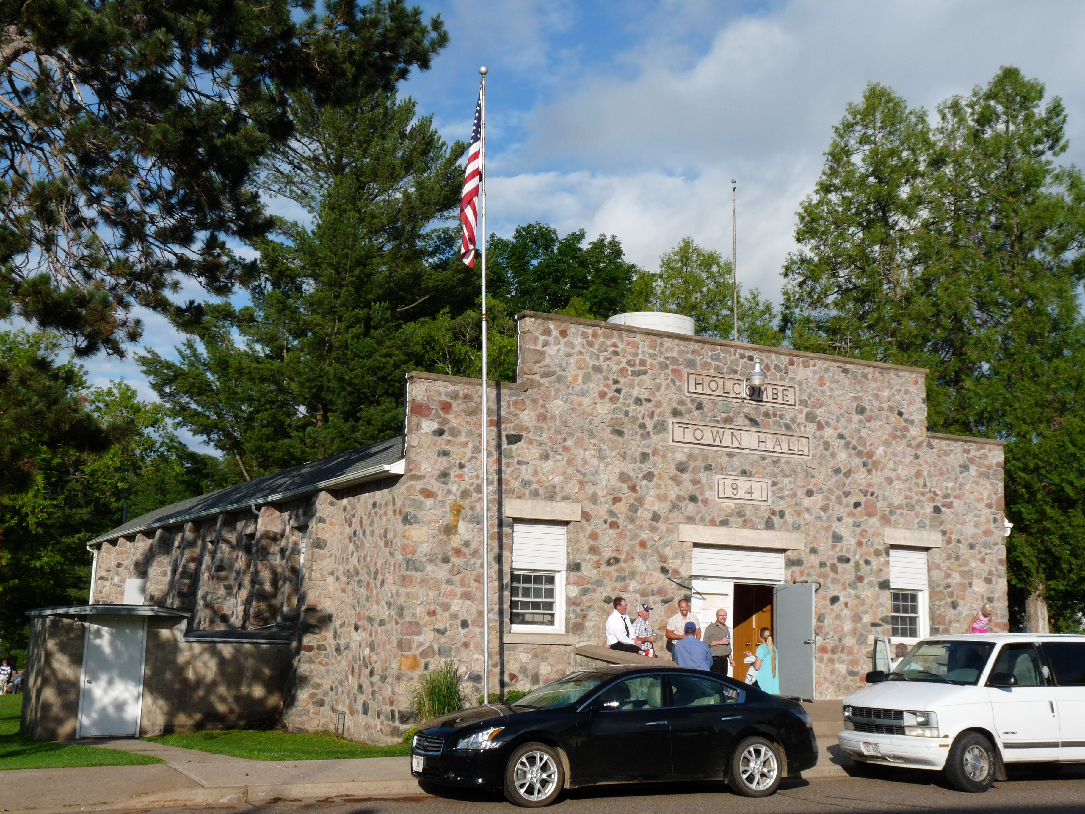 The town hall in Lake Holcombe, Wisconsin, was built in 1941.